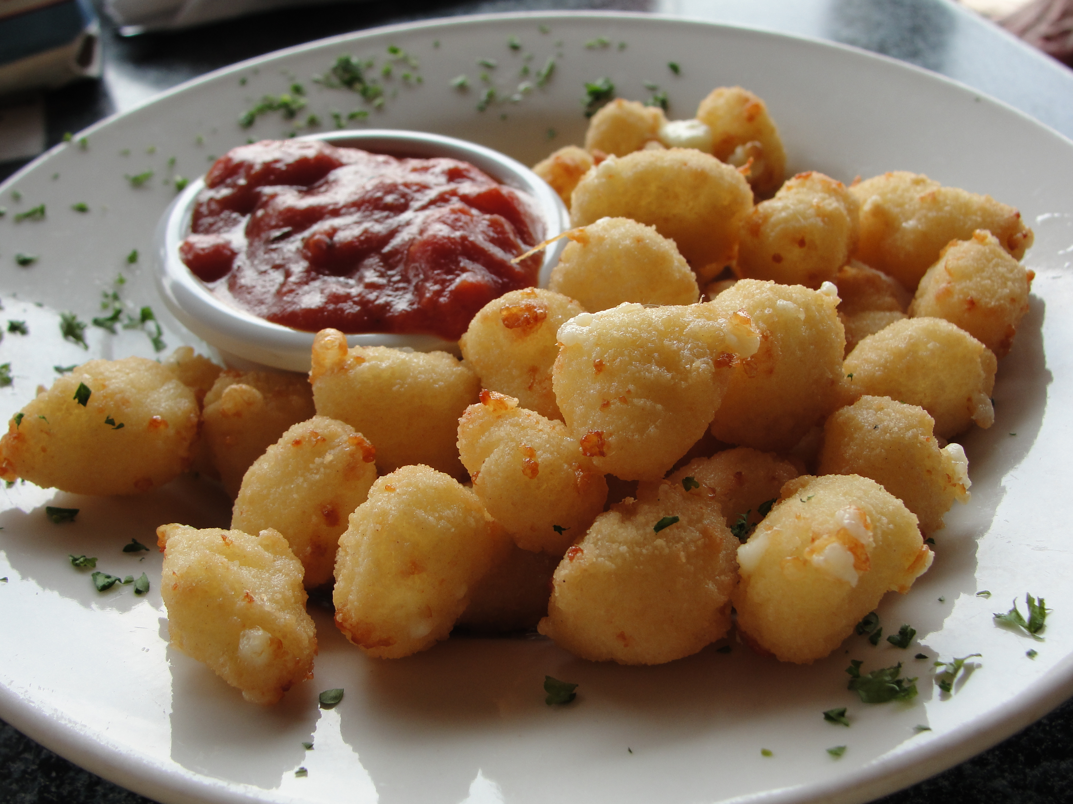 Fried Cheese Curds. Fried cheese curds, a Wisconsin delicacy., Green Bay.